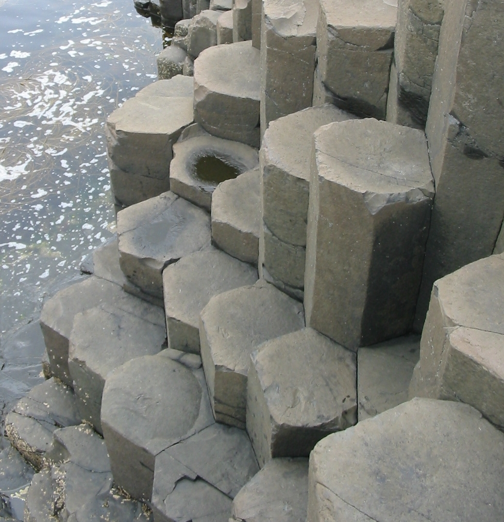 The Giant's Causeway is an area of interlocking basalt columns, the result of an ancient volcanic eruption, located in County Antrim on the northeast coast of Northern Ireland in United Kingdom.